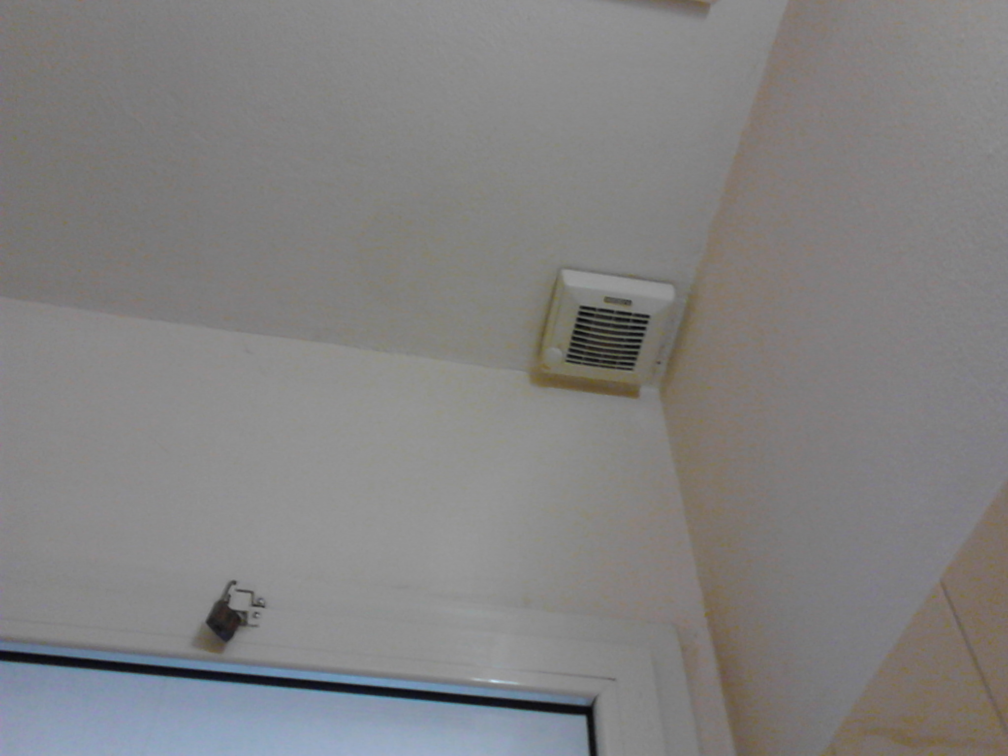 Exhaust fan